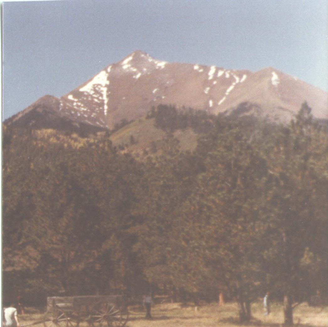 Horn Peak as seen from Horn Creek Camp.